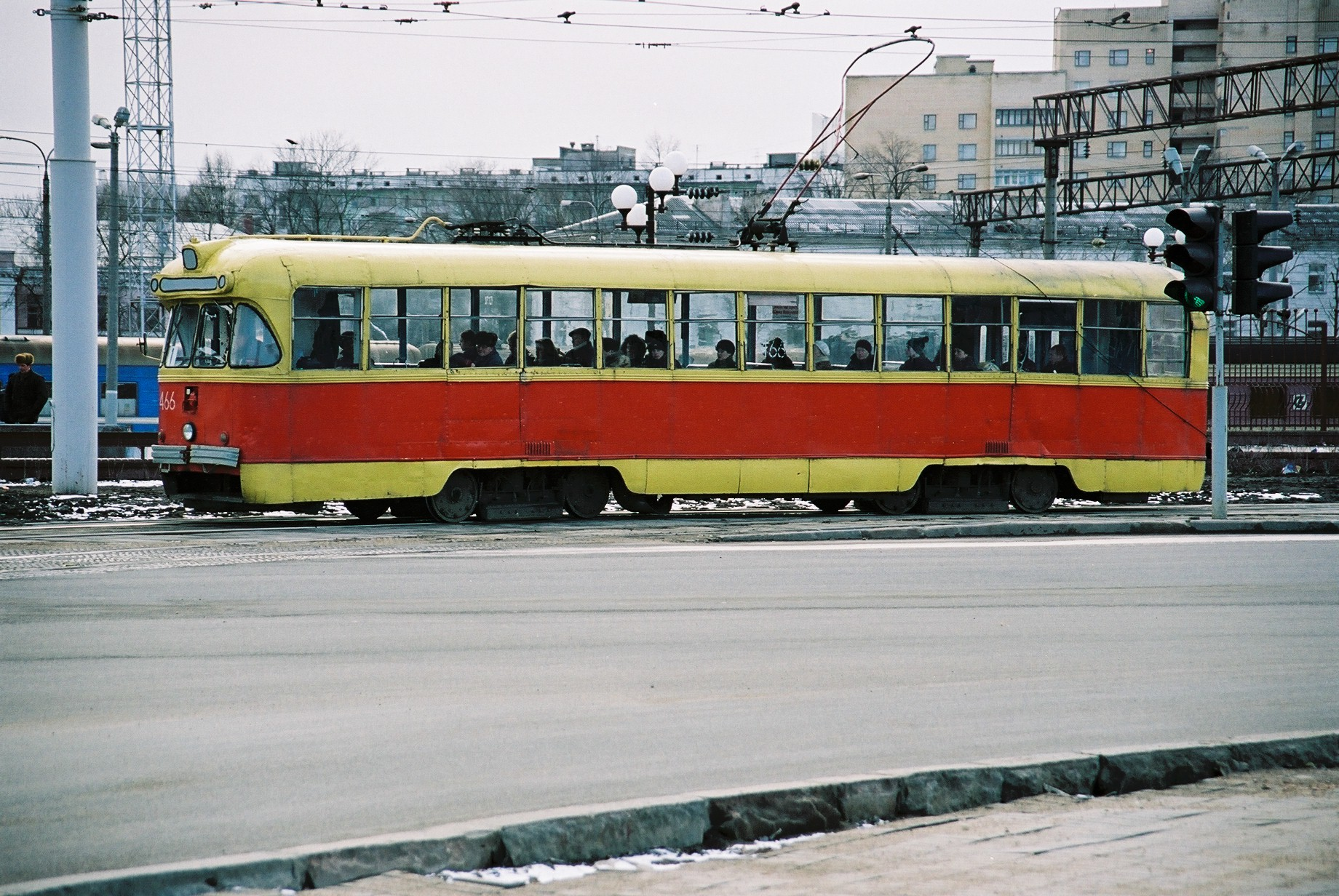 Tram. Minsk, Belarus.